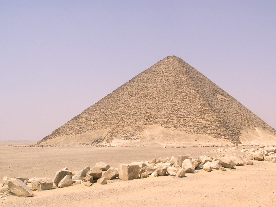 Snofru's Red Pyramid This area is arguably the most important pyramid field in Egypt outside Giza and Saggara, although until 1996 the site was inaccessible due to its location within a military base,and hence was virtually unknown outside archaeological circles. The southern pyramid of sneferu, commonly known as the Bent pyramid, is believed to be the first (or by some accounts, second) attempt at creating a pyramid with smooth sides. In this it was only a partial - but nonetheless visually arresting - success; it remains the only Egyptian pyramid to retain a significant proportion of its original limestone.